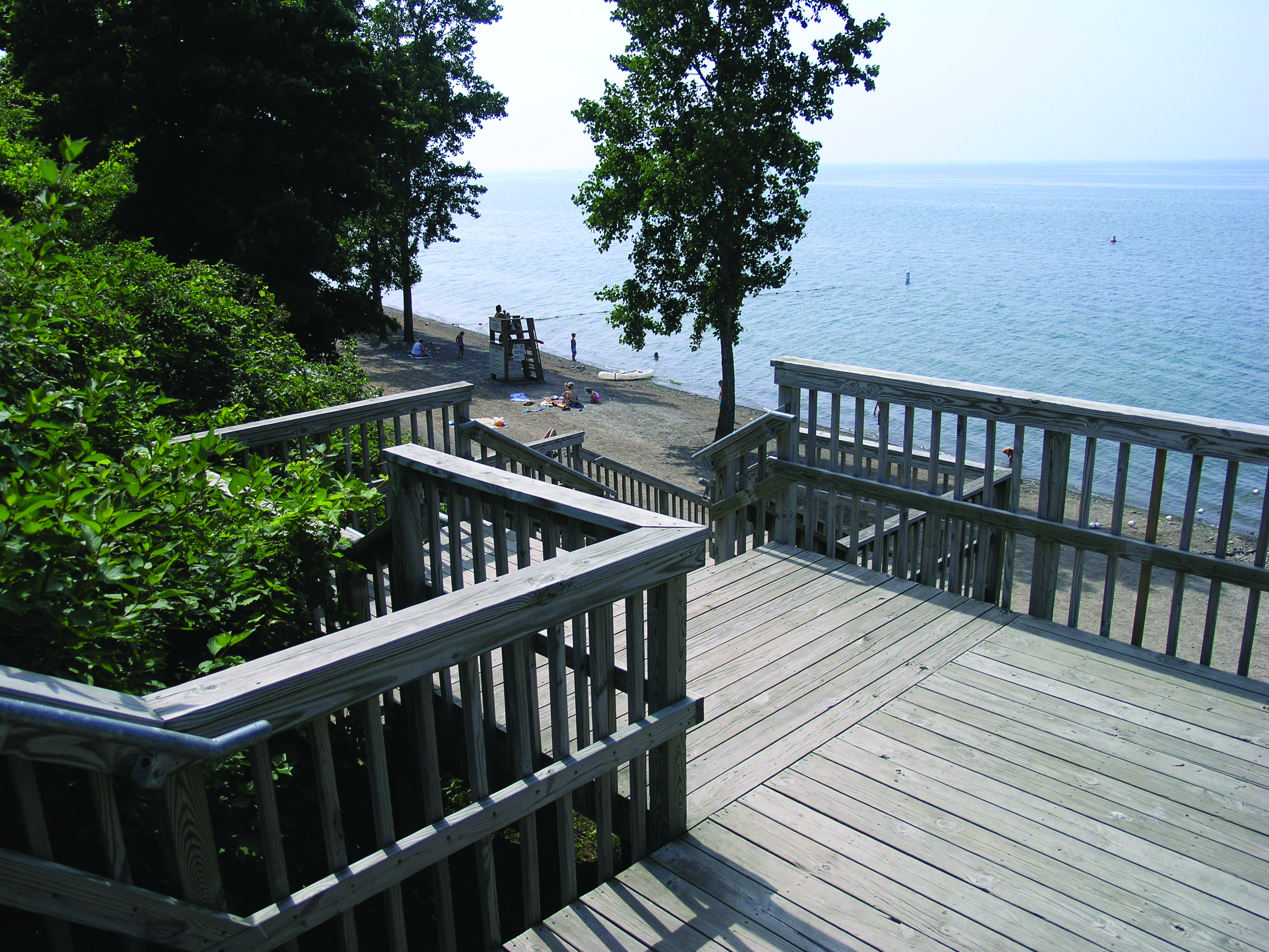 Plants and wildlife abound over 395 acres of mature woods, open meadows and marshland. The park's four-mile nature trail is used for hiking, snowshoeing and cross-country skiing. The park also features fishing, a playground, picnicking, shelters, lake swimming, a bath house, snack bar, boat launch and more. Seasonal parking fee.